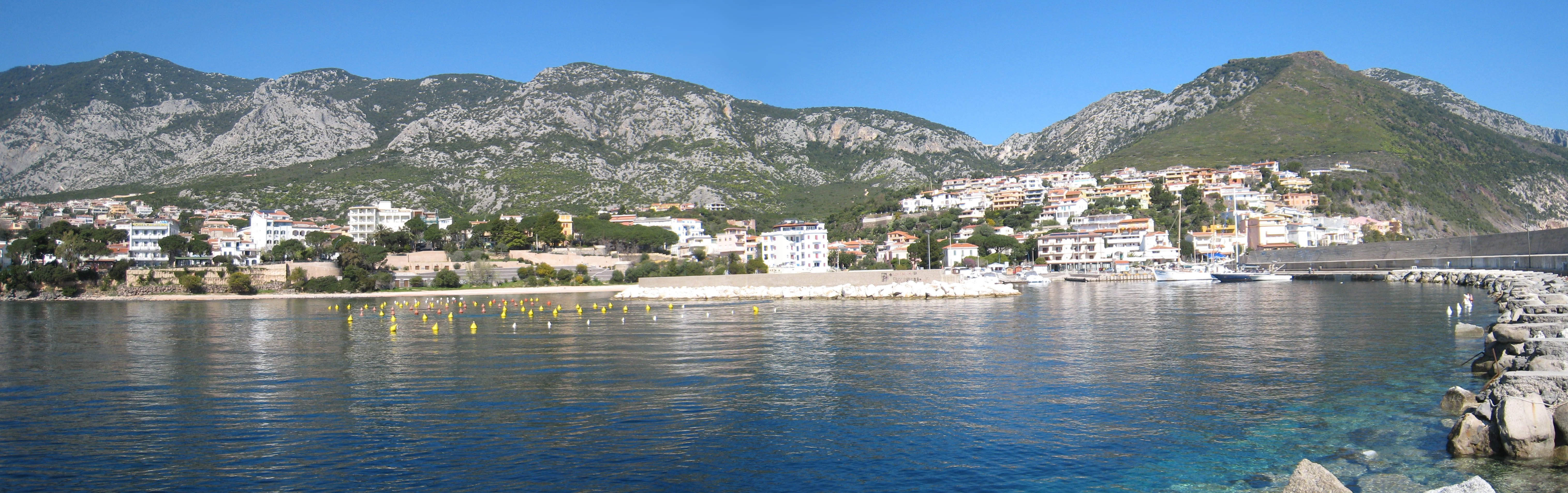 The town of Cala Gonone, seen from the pier. Composed of two shots stitched together.